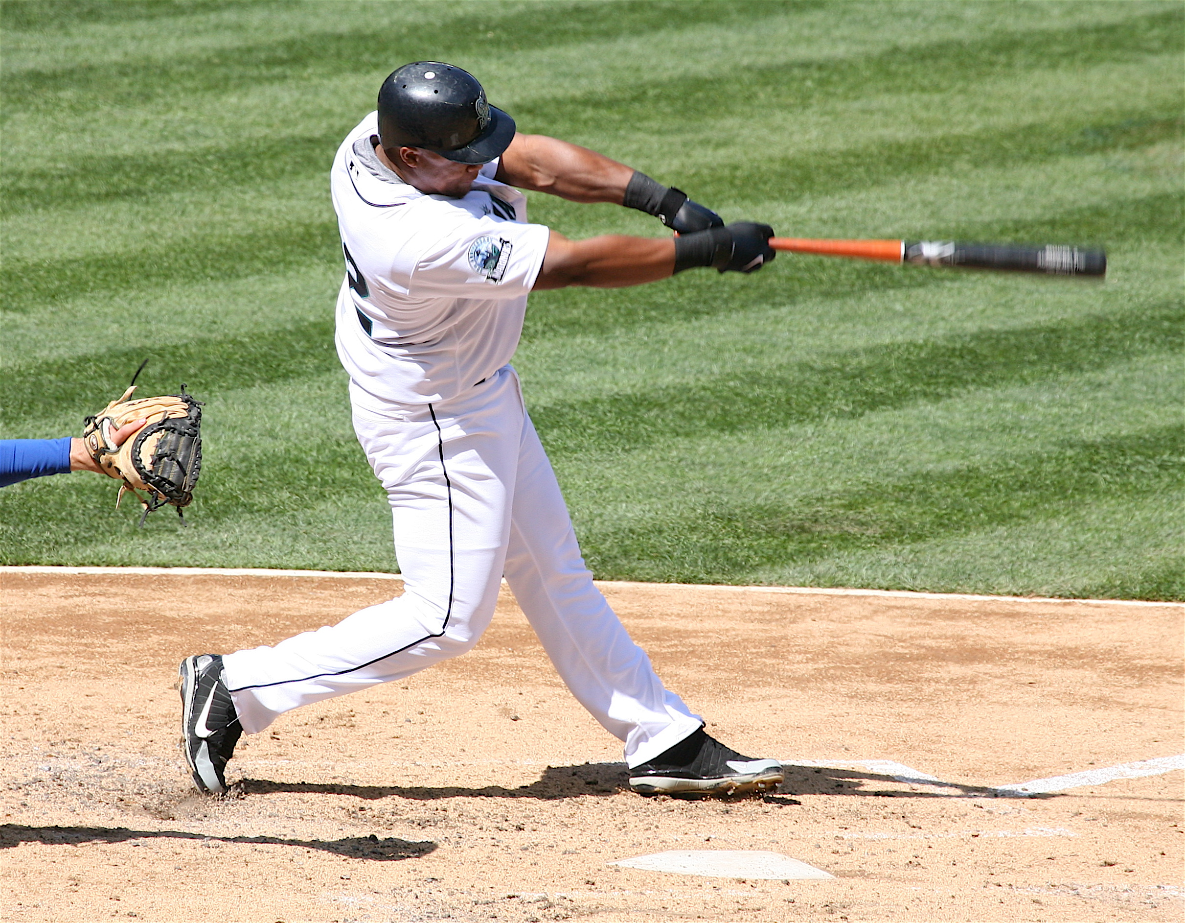 Adrián Beltré of the Seattle Mariners swinging at a pitch. Beltré was wearing number 42 on Jackie Robinson Day.